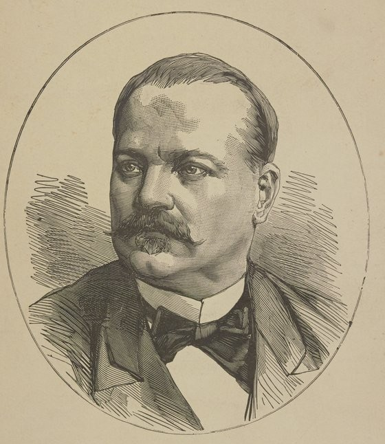 Colonel Paul Flatters (1832–1881)